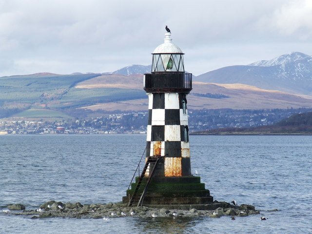 Perch lighthouse Well named lighthouse in the Clyde at Coronation park, Port Glasgow. The tip of Ardmore Peninsula, Helensburgh and Glen Fruin can be seen beyond.